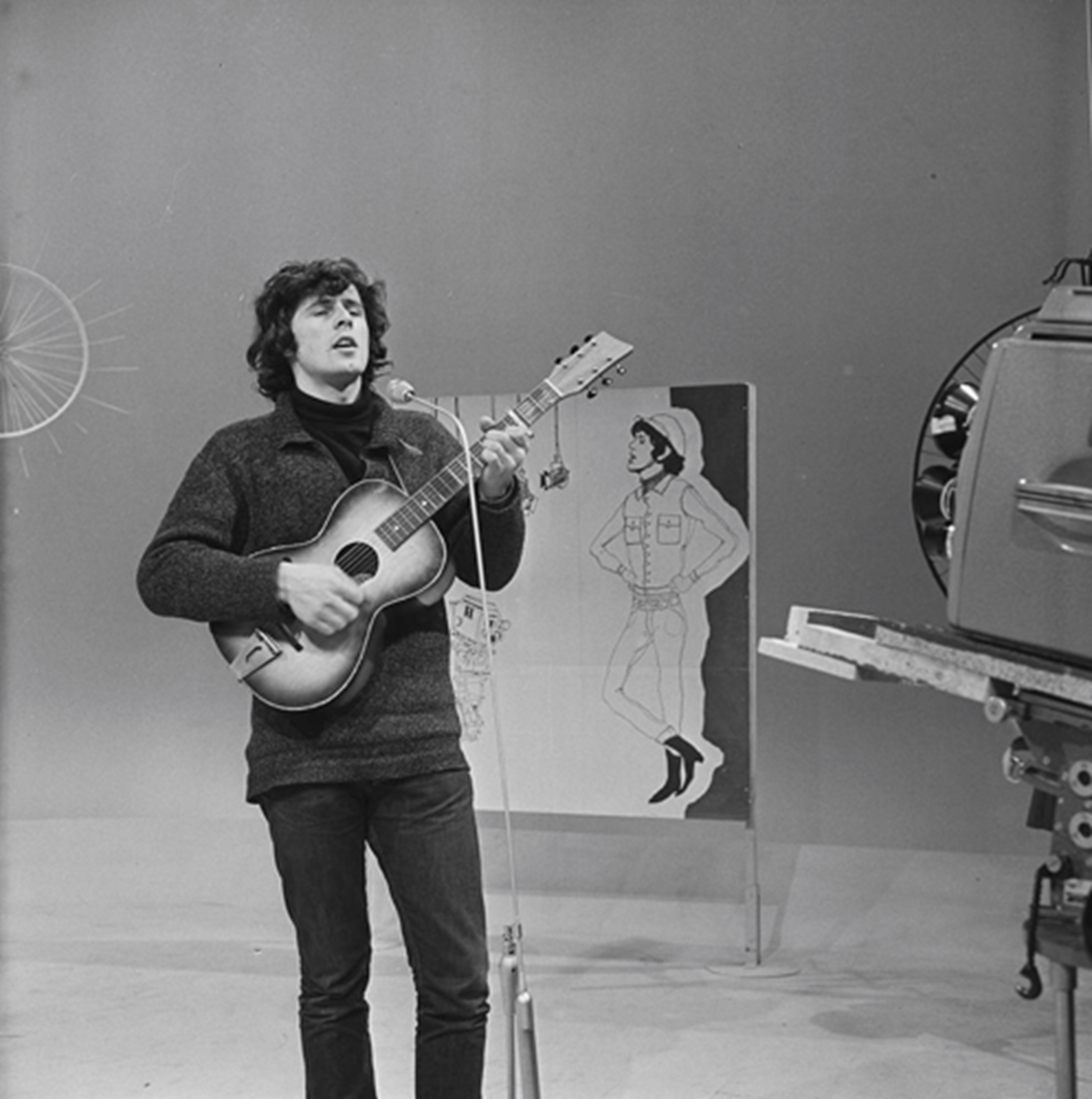 Scottish singer Donovan performing "Universal soldier" and "Sweet joy" in Dutch TV programme Fanclub. Registered 4 Febr. 1966; broadcast 11 Febr. 1966